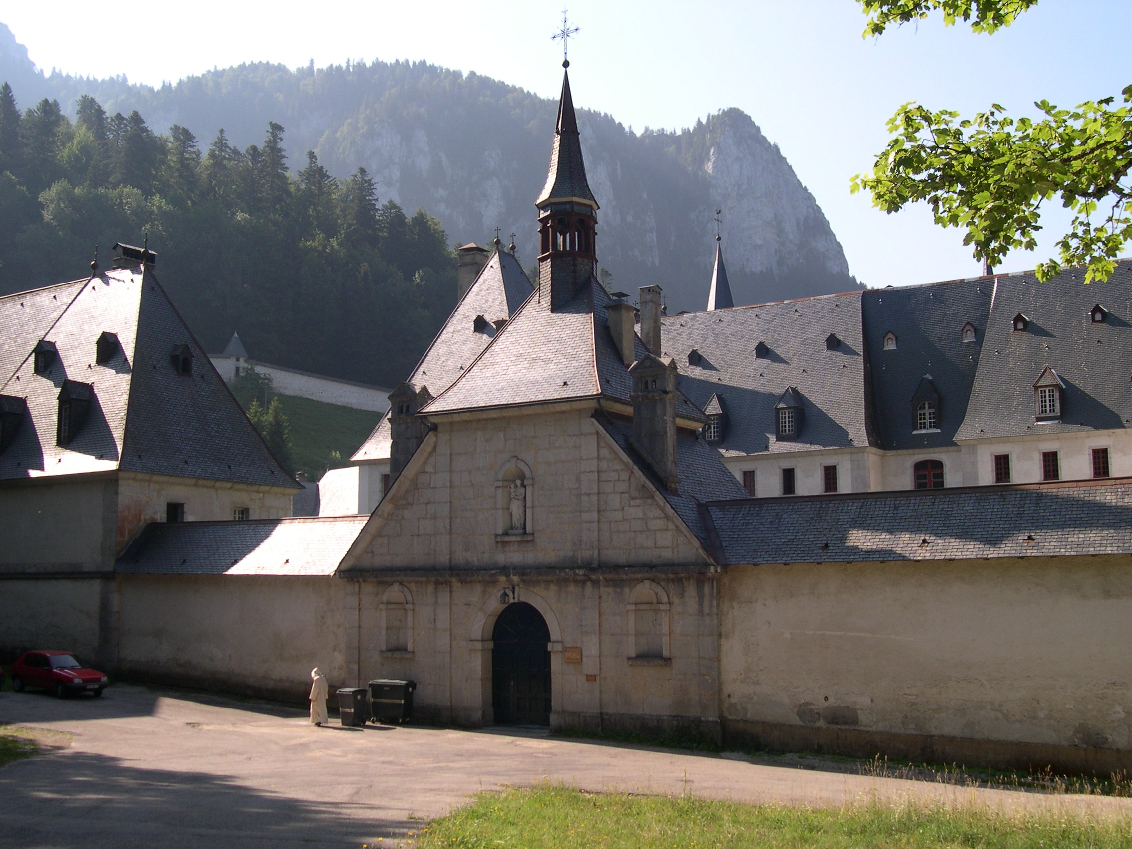 Monastery of the Grande Chartreuse, main entry